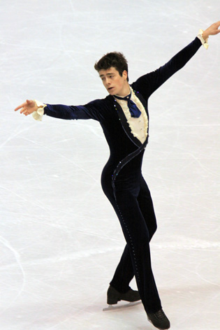 Brandon Mroz at the 2009 Skate America.